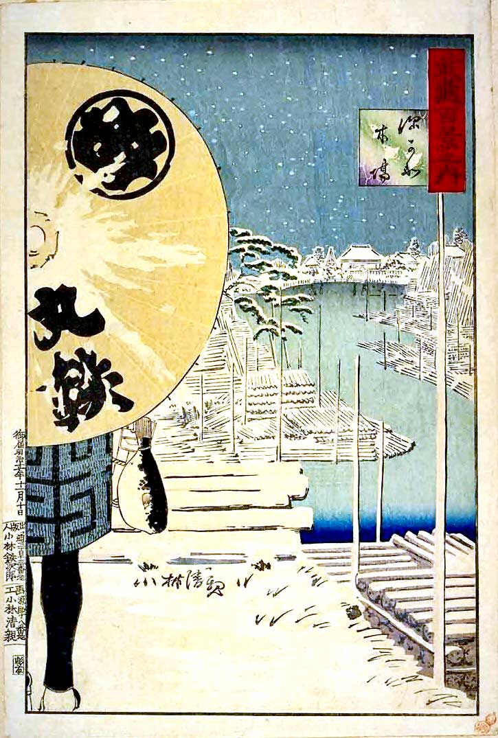 Вот укиёэ-картина, рисующая мужчину, свешивающего собаку-рыбу: 小林清親 «武蔵百景之内 Мусаси Хяккэй но ути» Musashi Hyakkey no uchi より«深かは 木場 Фукагава Киба» Fukagawa Kiba (Киётика Кобаяси «Киба, Фукагава» из серии «Сто видов Мусаси»